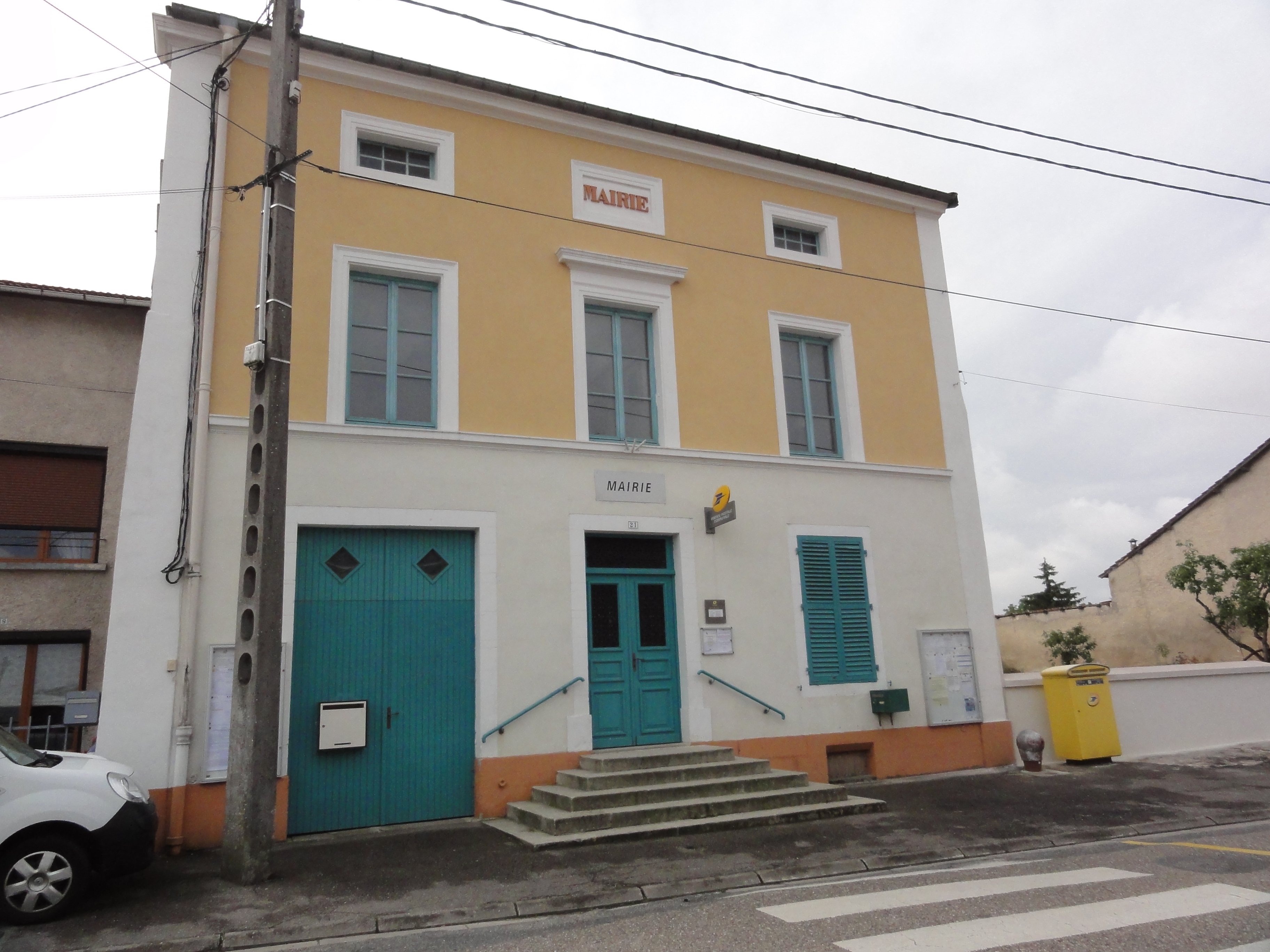 Saint-Germain-sur-Meuse (Meuse) mairie